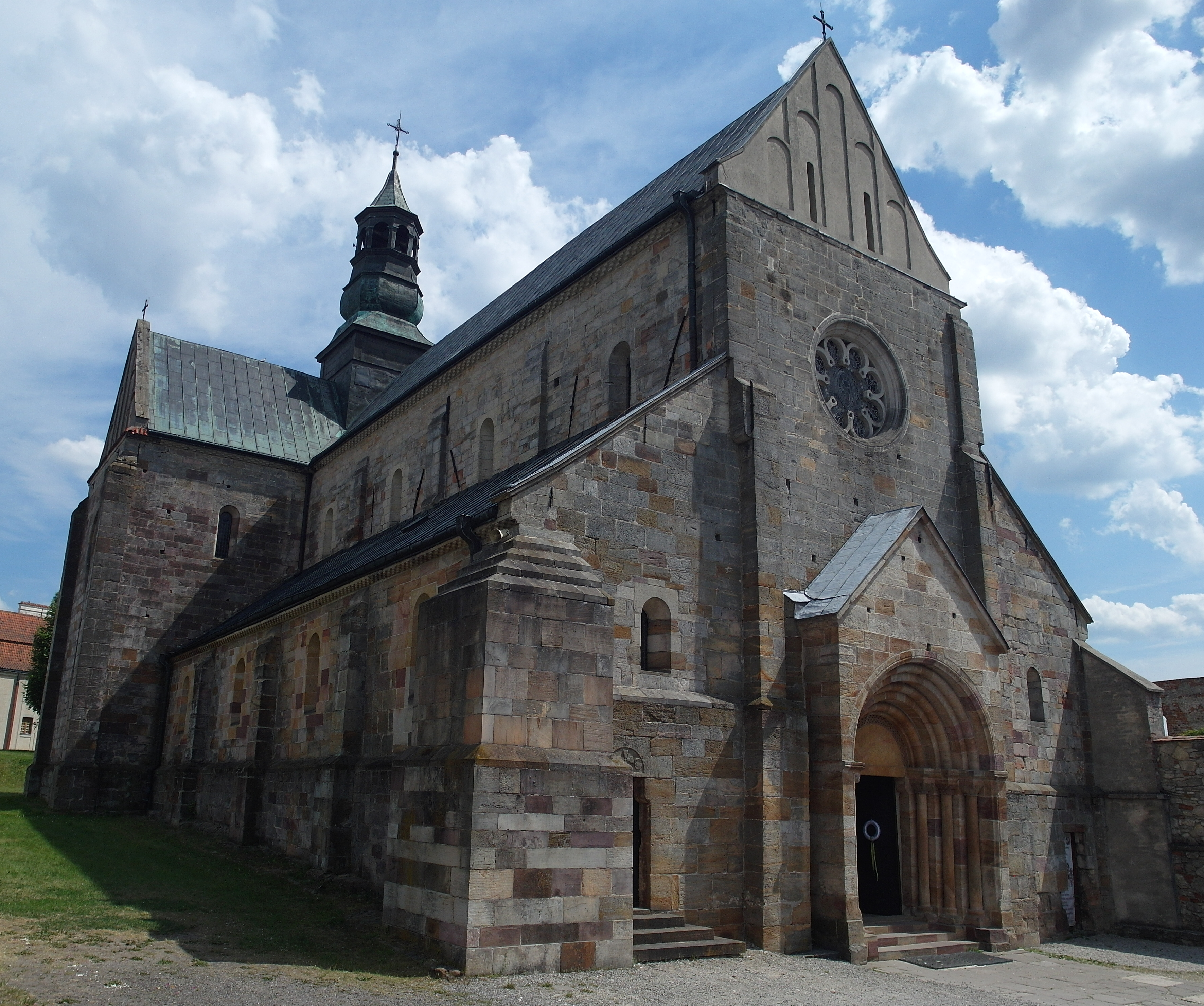 Saint Thomas of Canterbury church in Sulejów